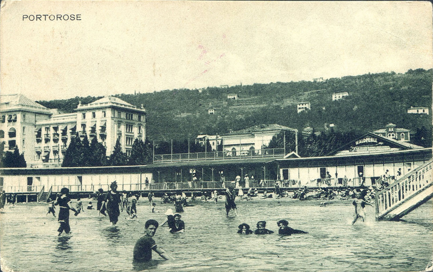 Postcard of Portorož.